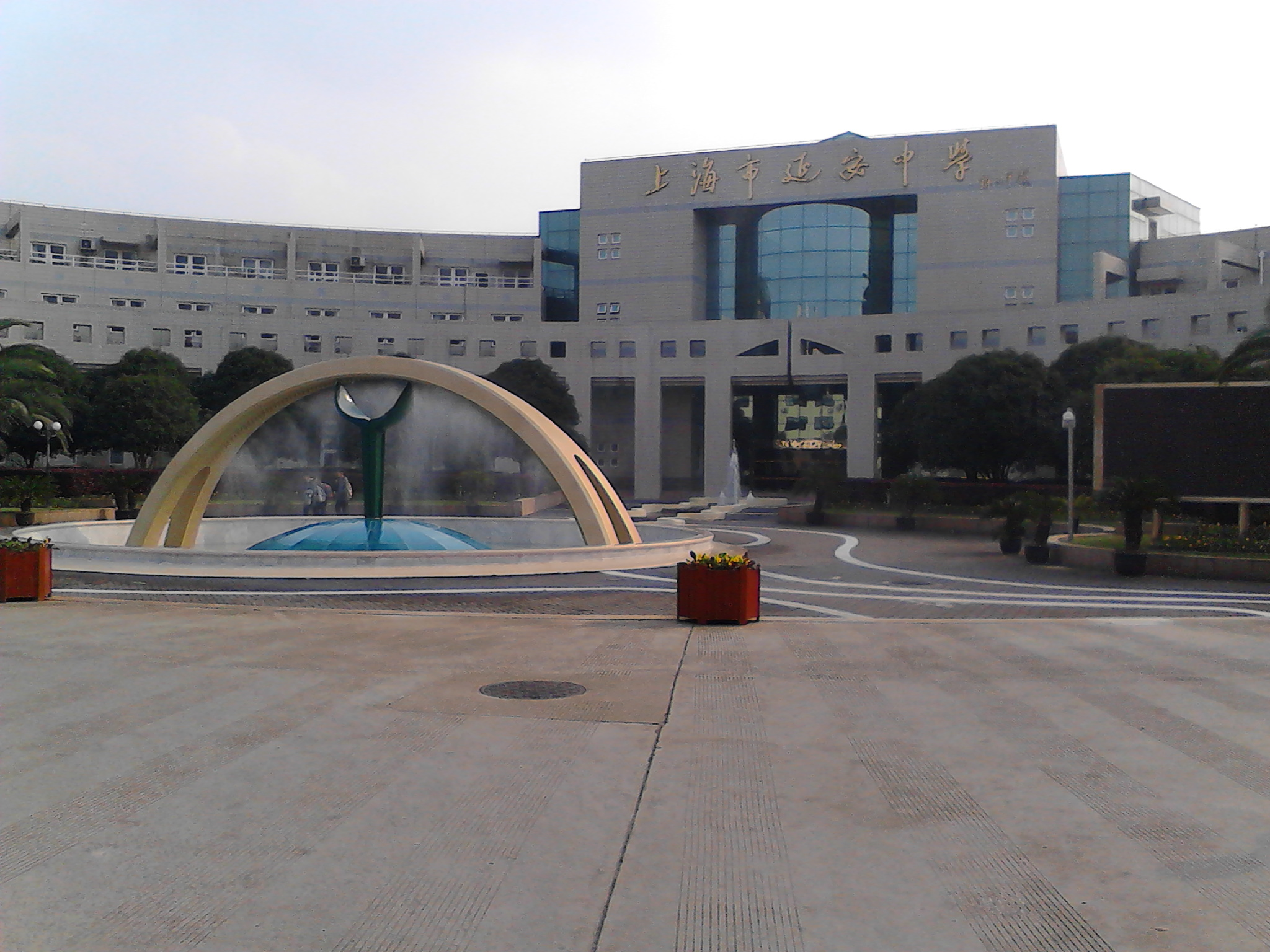 The new appearance of Shanghai Yan'an High School after the summer vacation of 2014.